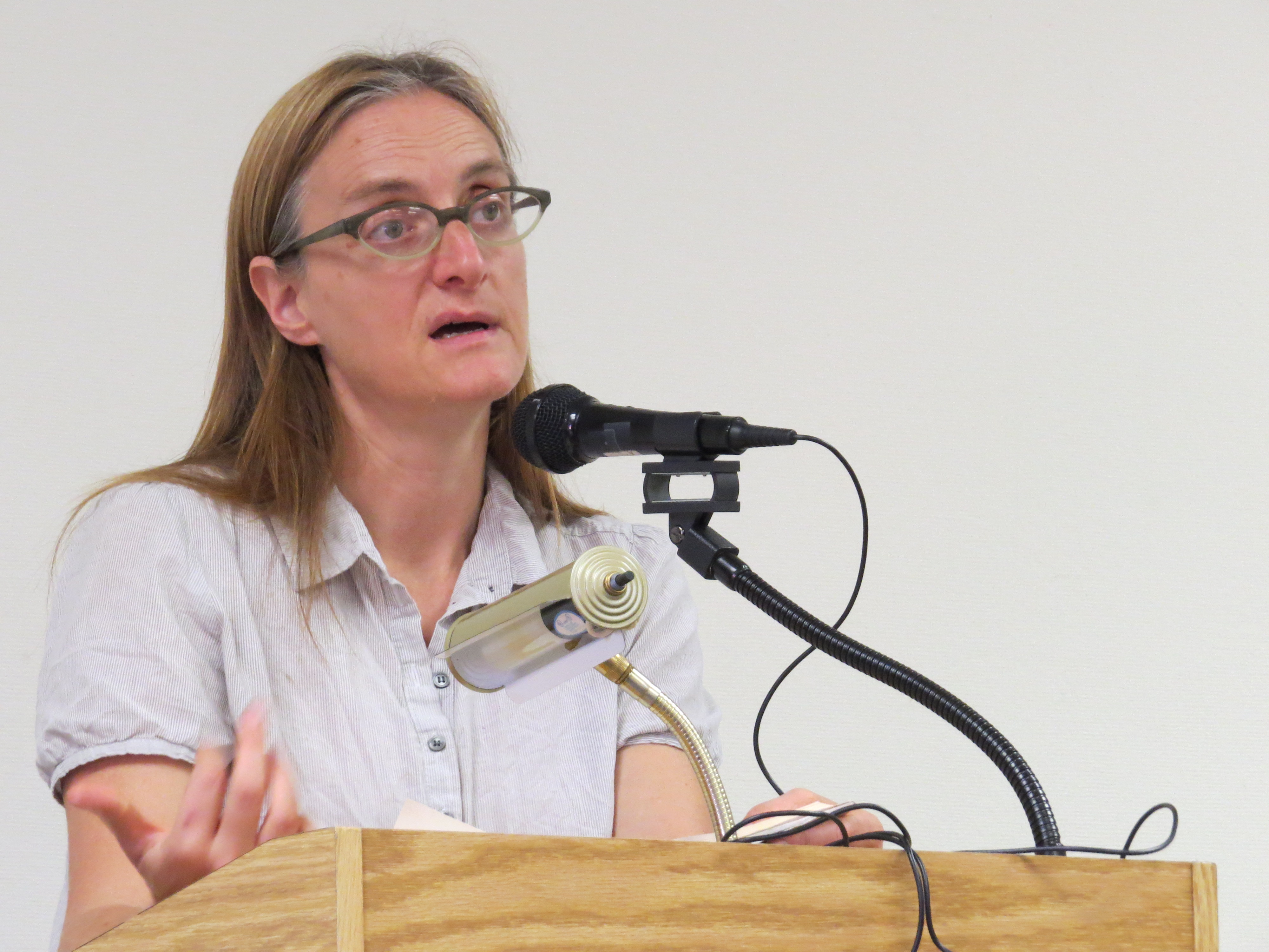 Bestselling Author Novella Carpenter Discusses New Memoir The Hayward Public Library was pleased to host Novella Carpenter at the Hayward Main Library on October 18, 2014. She read from and discussed her new memoir Gone Feral: Tracking My Dad Through the Wild. Carpenter's father, George--a back-to-the-land homesteader and troubled Korean War veteran--has spent decades battling his inner demons while largely absenting himself from his children's lives. Carpenter is forced to confront the truth: her time with her dad--now 73 years old--is limited, and the moment to restore their relationship is now. Carpenter is best known for her 2009 bestselling memoir Farm City: The Education of an Urban Farmer, which chronicles her trials and triumphs in running a small-scale farm on an abandoned lot in a tough Oakland neighborhood. She last appeared in Hayward before a standing-room-only audience at the Main Library in 2011, for a memorable Book-to-Action event in partnership with students engaged in Ochoa Middle School’s garden.